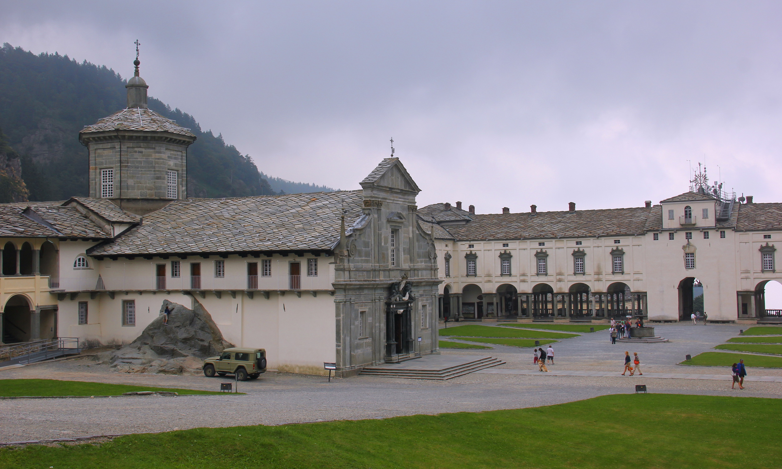 Basilica Antica, Santuario di Oropa, Biella, Piedmont, Italy Sacro Monte di Oropa Native nameSacro Monte di OropaParent institutionSacri Monti of Piedmont and LombardyLocationBiella, Piedmont, ItalyCoordinates45° 37′ 28.61″ N, 7° 58′ 52.76″ E Authority control : Q384966 VIAF: 315122112 UNESCO: 1068-005 institution QS:P195,Q384966